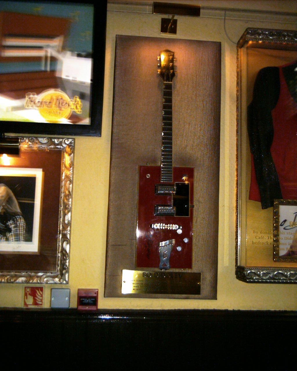 Autor: Fin-Jasper Langmack Exponat im Hard Rock Cafe London